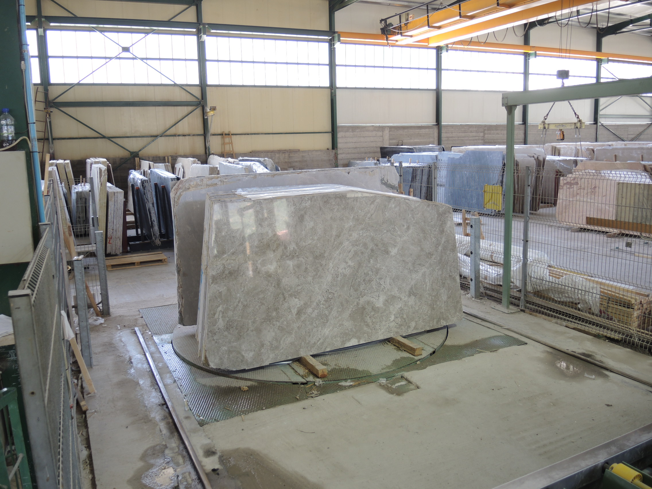 Marble cutting and processing factory in Greece, Argolis